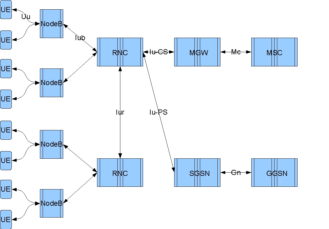 I, Lijona ( have created this image using OpenOffice Draw.